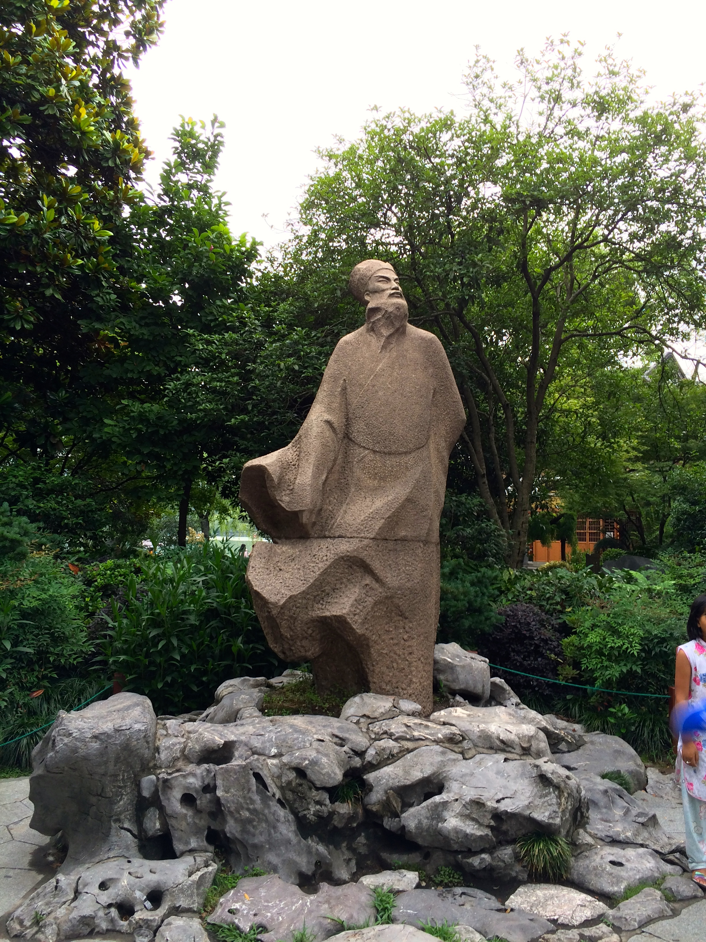 Statue of Su Shi at the end of Su Causeway in Hangzhou